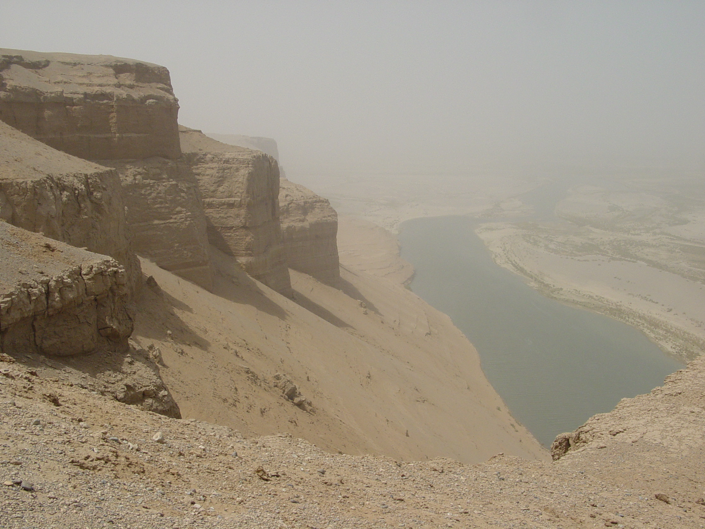 Overview of Helmand River in Afghanistan